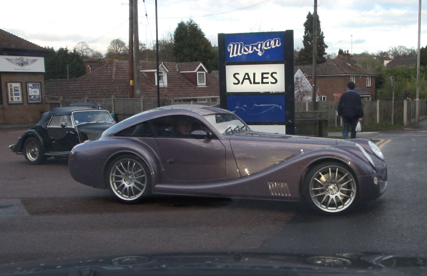 Morgan Aeromax Grabbed this shot from inside my car as it pulled out from a dealership. Had the wide angle lens on at the time - not ideal. Had to crop this.